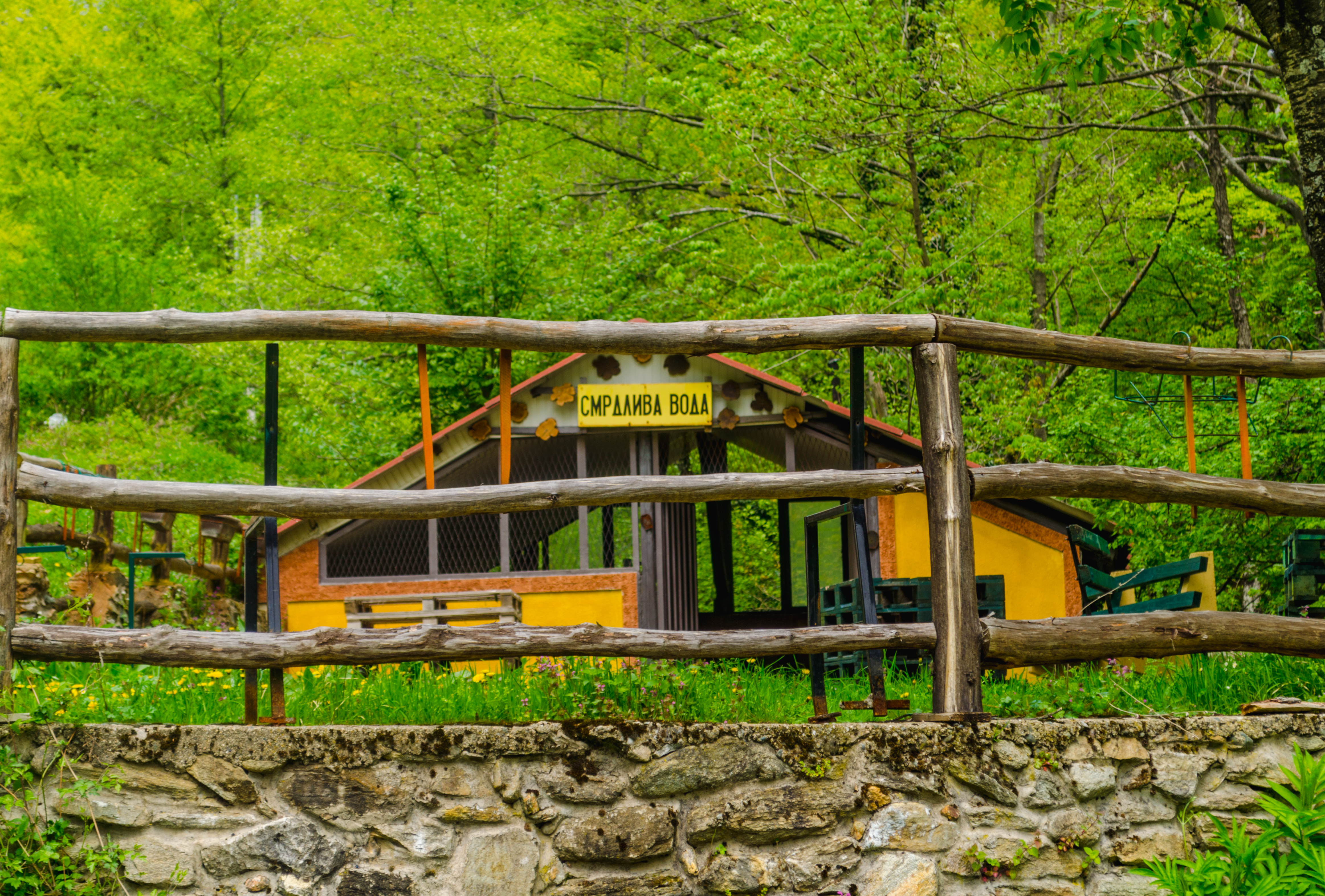 Place Smrdliva Voda in Gevgelija